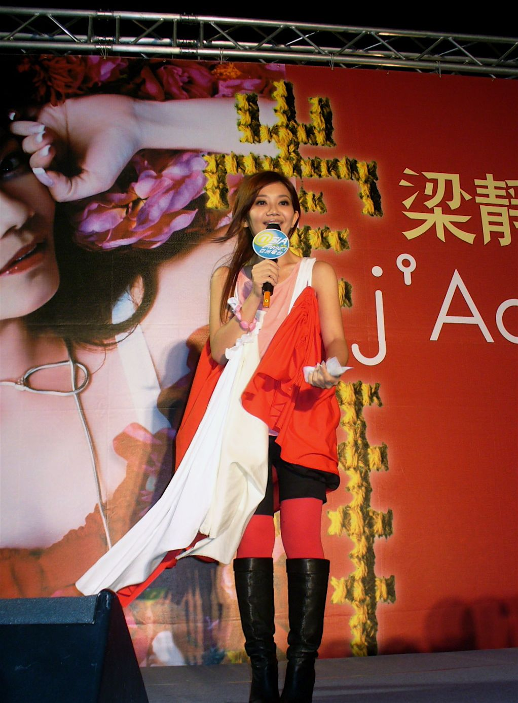 Fish-Leong concert in Ximenting, Taipei on Nov 11th, 2007.